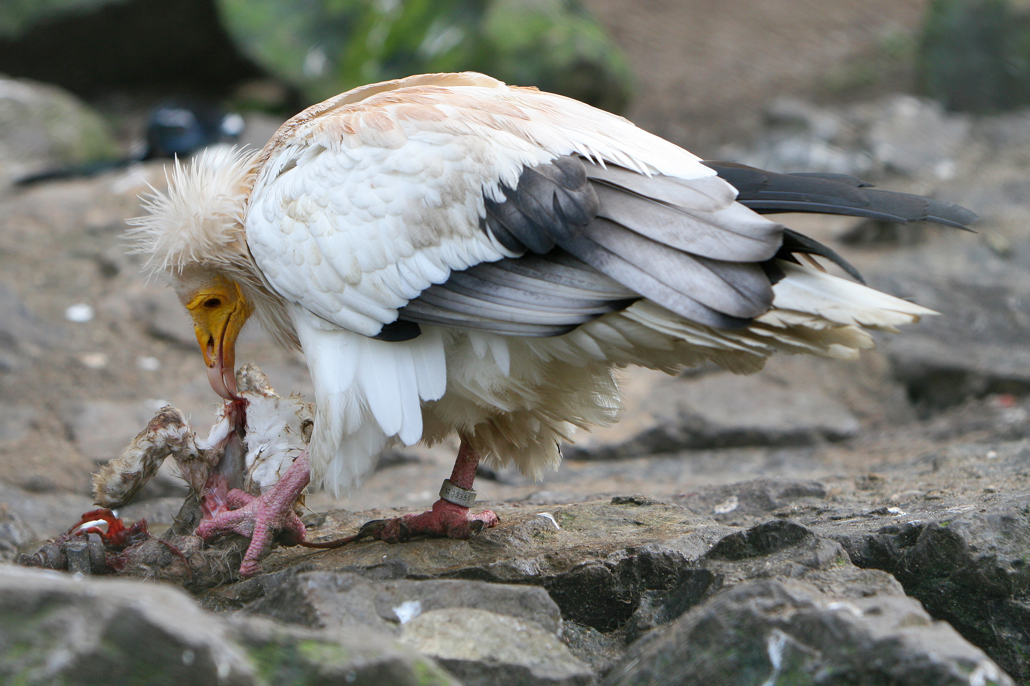 Egyptian Vulture at Artis Zoo, Amsterdam, Netherlands.